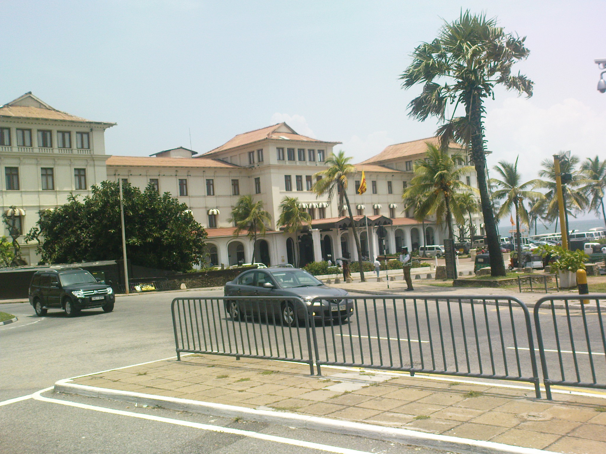 Galle Face Hotel seen on the way.